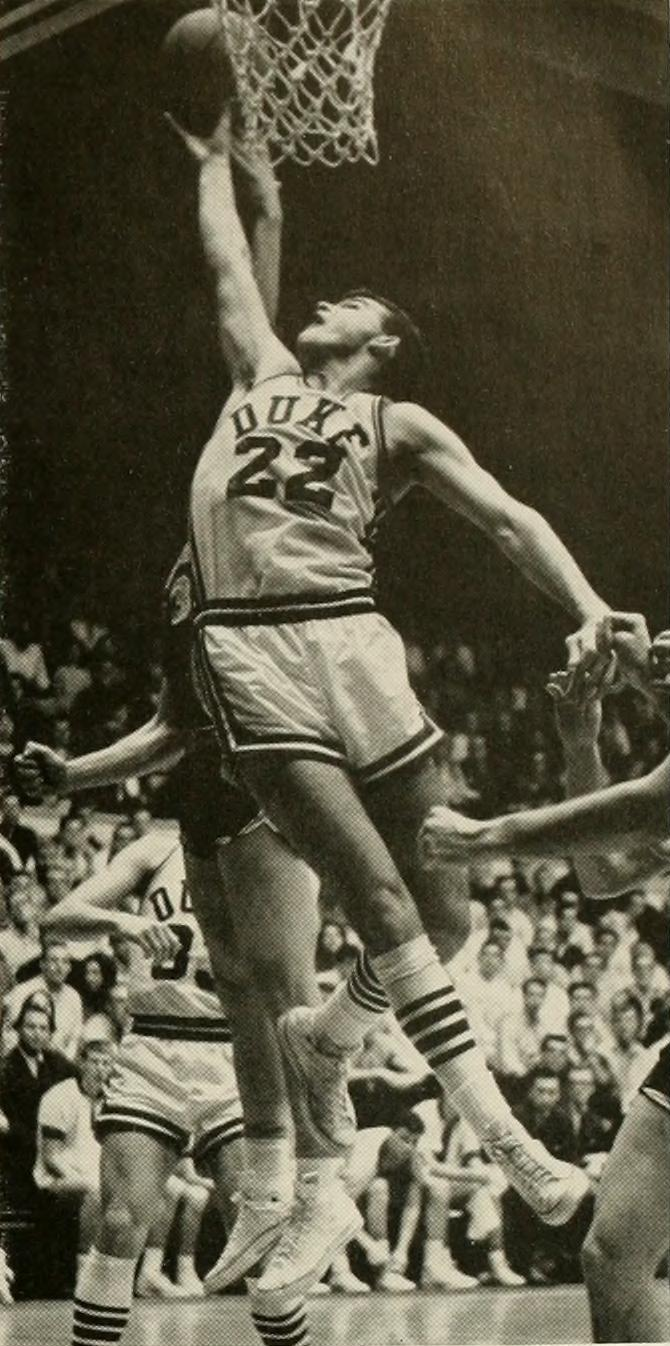 A scan from the 1965 edition of the Chanticleer, the yearbook of Duke University